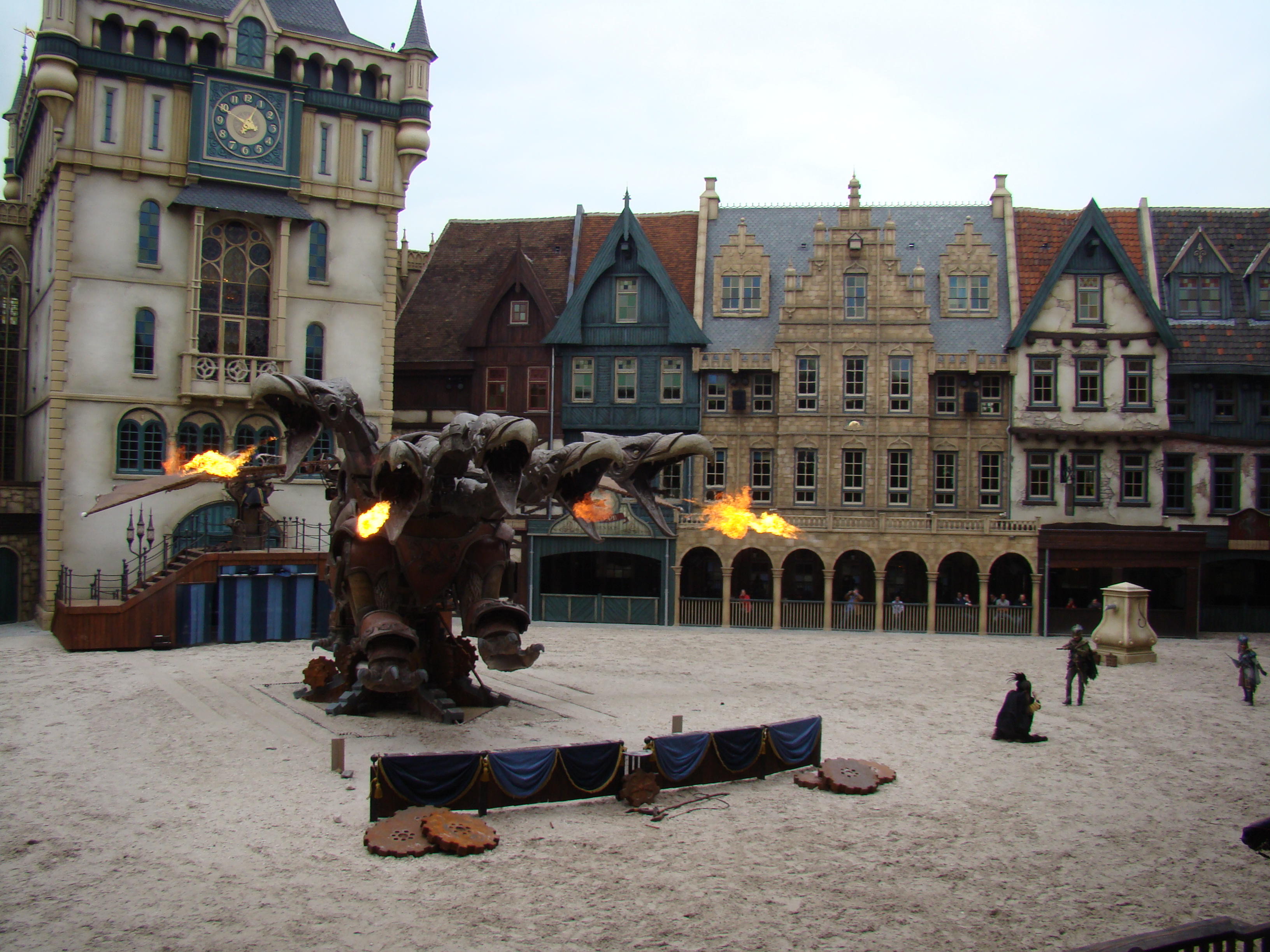 Impressions of Raveleijn, Efteling at Kaatsheuvel